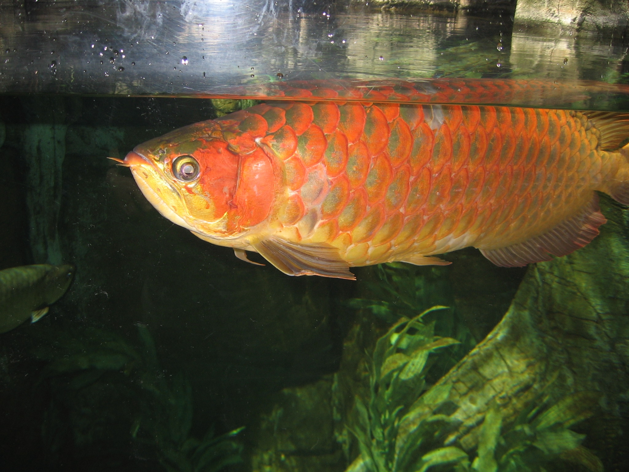 Super Red Arowana (Scleropages legendrei, formerly S. formosus)